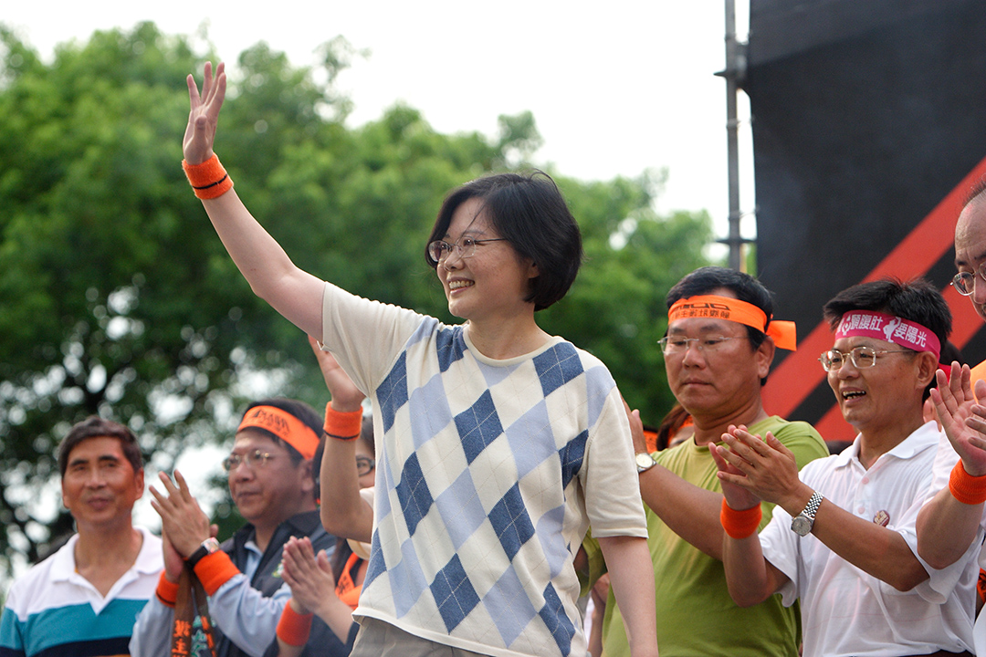 Tsai Ing-wen, the chairperson of the Democratic Progressive Party, at 830 March.